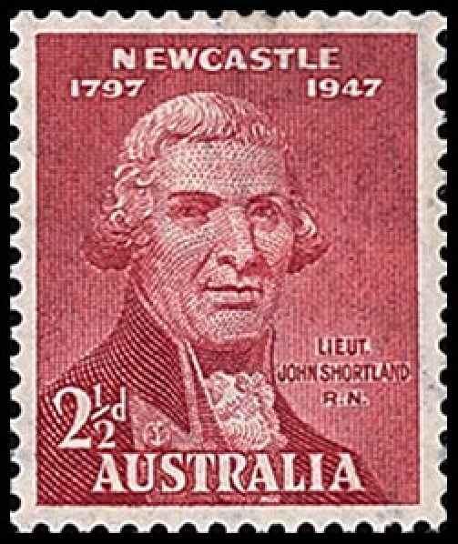 Postage stamp of Australia, John Shortland, 2,5d, 1947